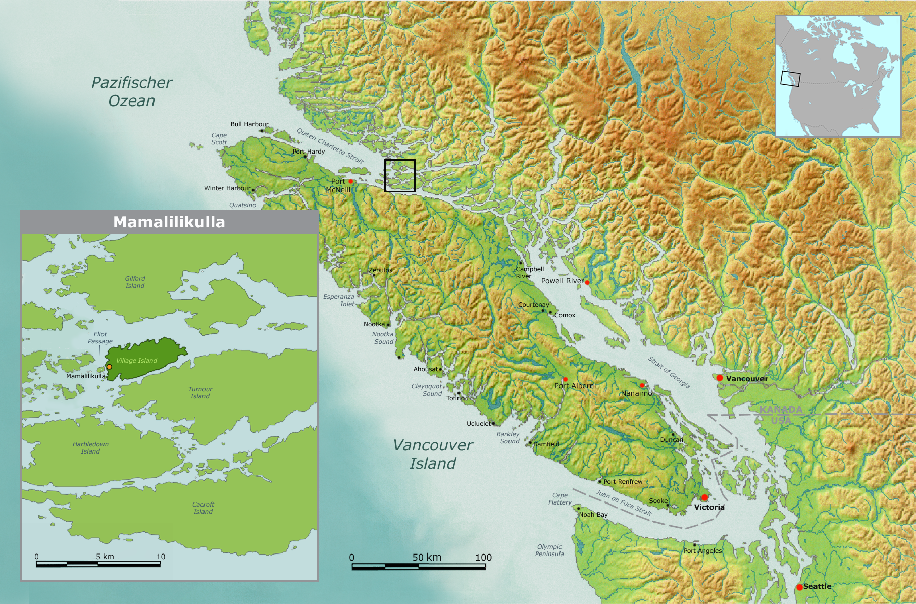 Map of Mamalilikulla traditional tribal territory.